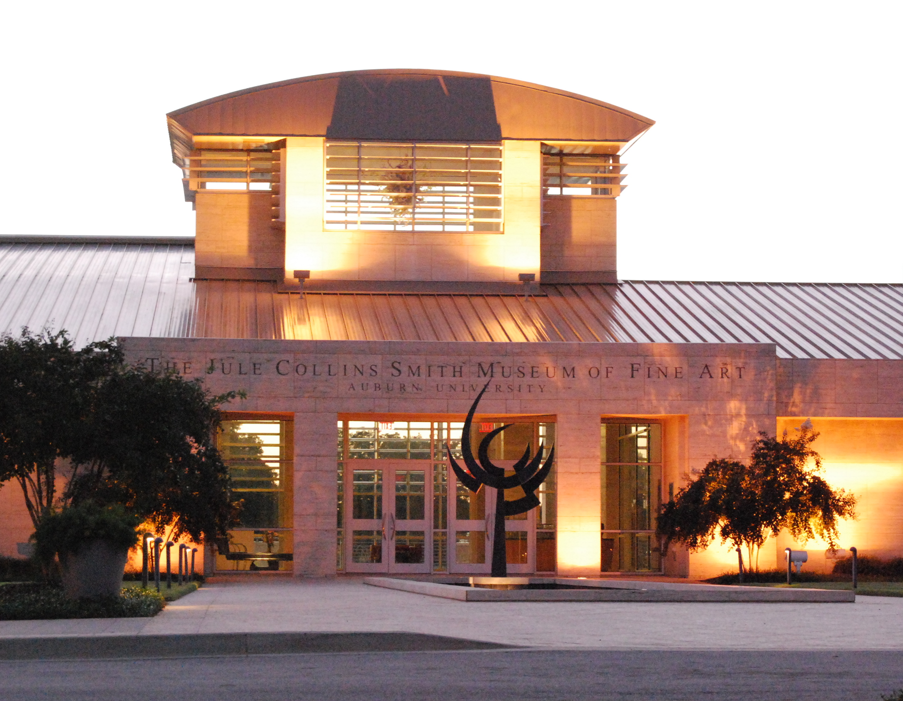 Entrance at Jule Collins Smith Museum of Fine Art at Auburn University.